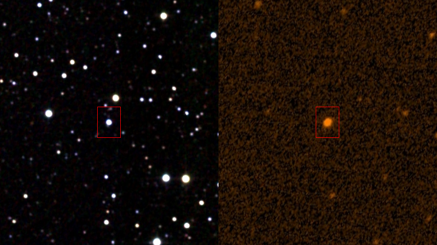 Star KIC 8462852 in infrared (2MASS survey) and ultraviolet (GALEX).